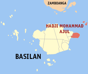 Map of the Basilan showing the location of Hadji Mohammad Ajul